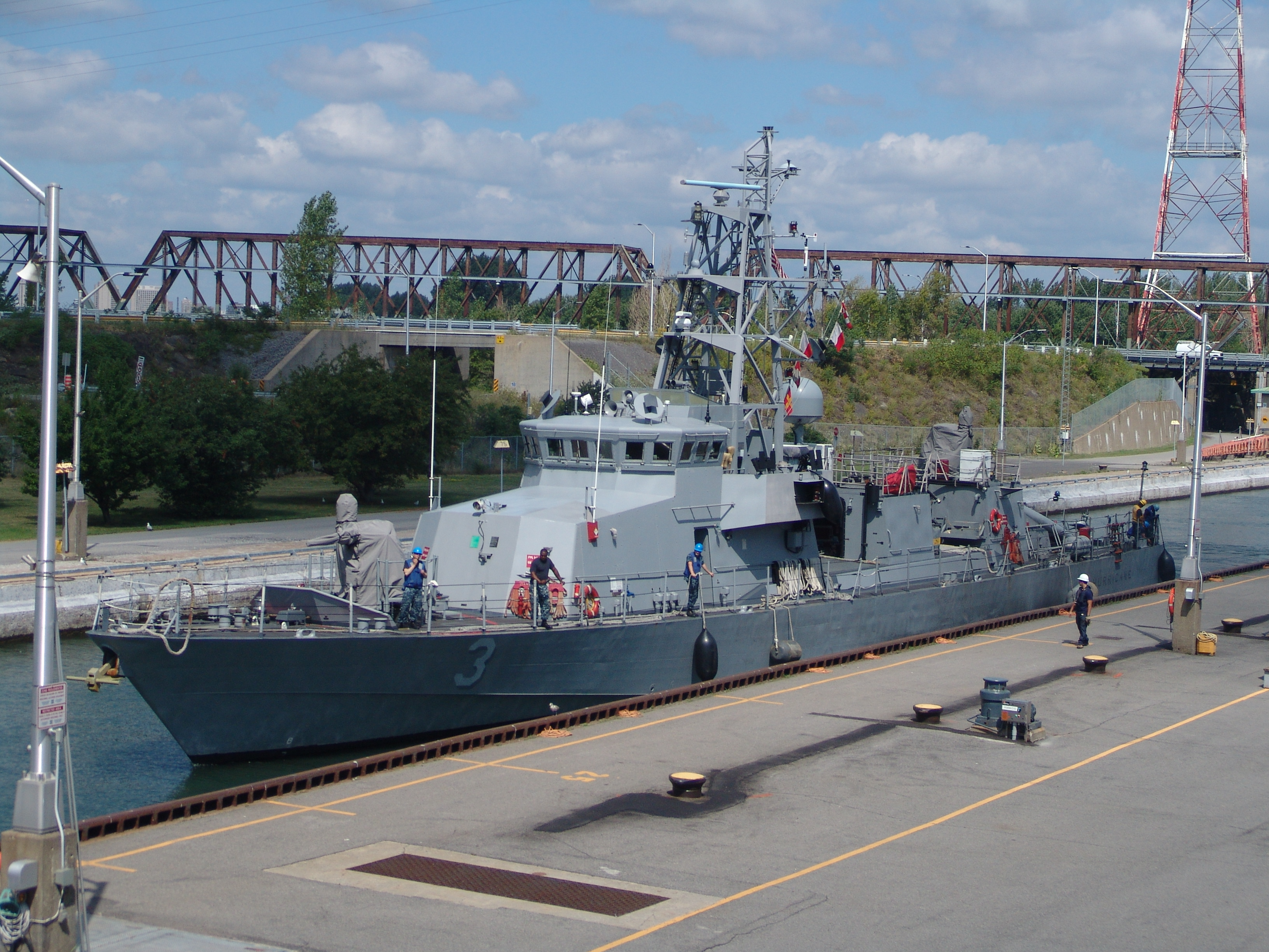 The USS Hurricane passing the Saint-Lambert lock of the Saint-Lawrence Seaway during the 2012 Great Lake Deployment.